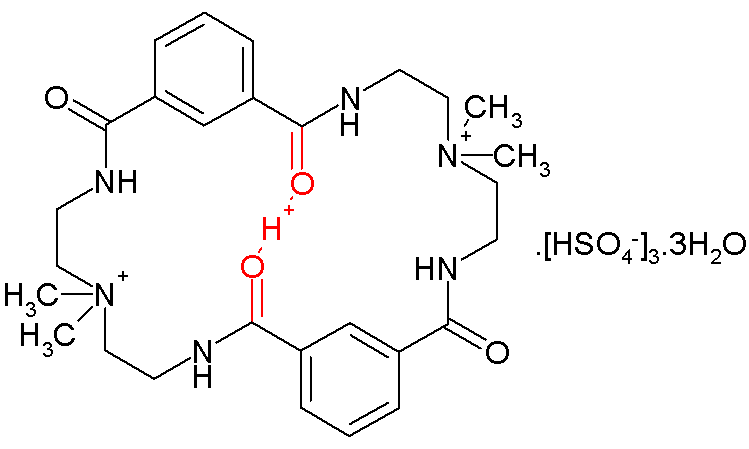 Encircled proton